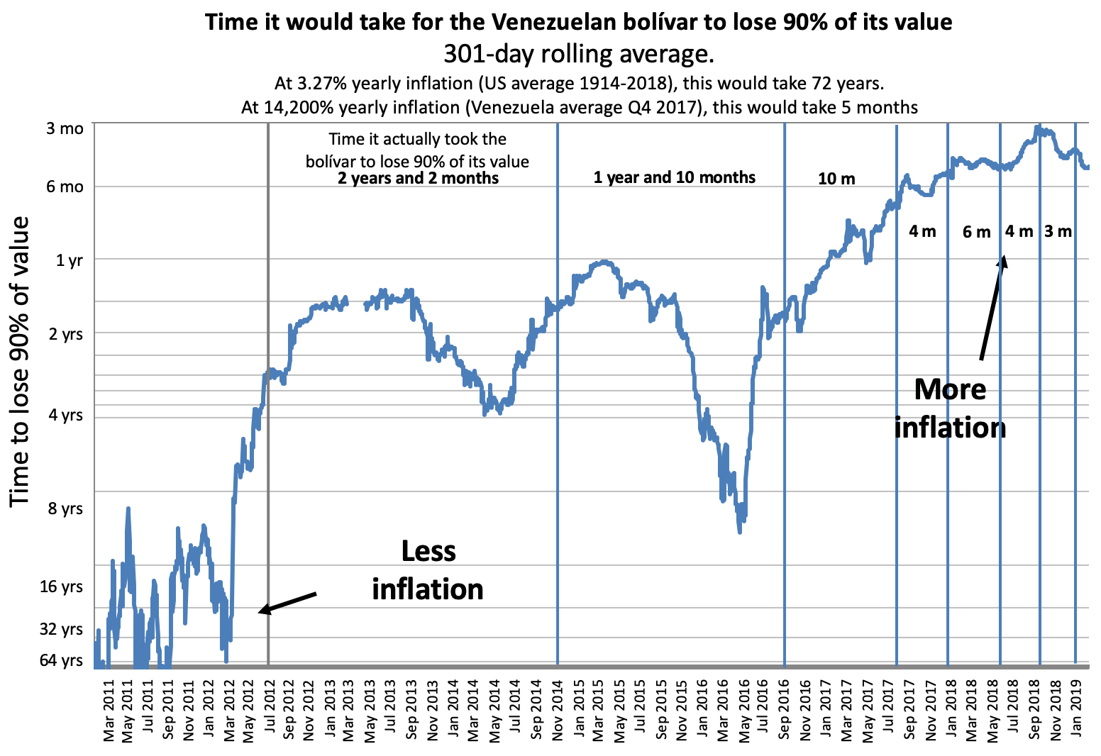 This is the time in years (Y-axis) that would be necessary for the BsF to lose 90% of its value if inflation was constant, at current inflation rates. Roughly, if it costs 1 BsF to buy one US dollar in 2012, the money will have lost 90% of its value when it will cost 10 BsF to buy US dollar (Dec 2014). It will have lost 90% of its value again when it will cost 100 BsF (Sep 2016), again when it will cost 1000 BsF (Jul 2017), and again when it will cost 10,000 BsF (Oct 2017). Yearly inflation rates vary enormously over a daily basis, for instance: 1 USD = 10,390 BsF (29 Jul 2017) 1 USD = 10,390 BsF (30 Jul 2017) 1 USD = 12,198 BsF (1 Aug 2017) 1 USD = 14,760 BsF (2 Aug 2017) 1 USD = 17,980 BsF (3 Aug 2017) 30 Jul daily inflation rate = 100*(10390/10390 - 1) = 0%. 30 Jul yearly inflation rate = 100*[(10390/10390)^365.24 -1] = 0% Time to lose 90% of value is not a finite number. 2 Aug 2017 daily inflation rate = 100*(14,760/12,198 - 1) = 21.0% per day 2 Aug 2017 yearly inflation rate = 100*[(14,760/12,198)^365.24 - 1] = 1.7*1032% per year Time to lose 90% of value at 2 Aug inflation rate: 12.1 days. 3 Aug 2017 daily inflation rate = 100*(17,980/14,760 - 1) = 21.8% per day 3 Aug yearly inflation rate = 100*[(14,760/12,198)^365.24 - 1] = 2.0*1033% per year Time to lose 90% of value at 3 Aug inflation rate: 11.7 days. Therefore, to inject sanity into this graph, the daily inflation rates are averaged over 301 days. In Excel for a given day X, this is computed as: =LOG(10; 1 + AVERAGE(daily inflation on day X-150:daily inflation on day X+150)) Data from